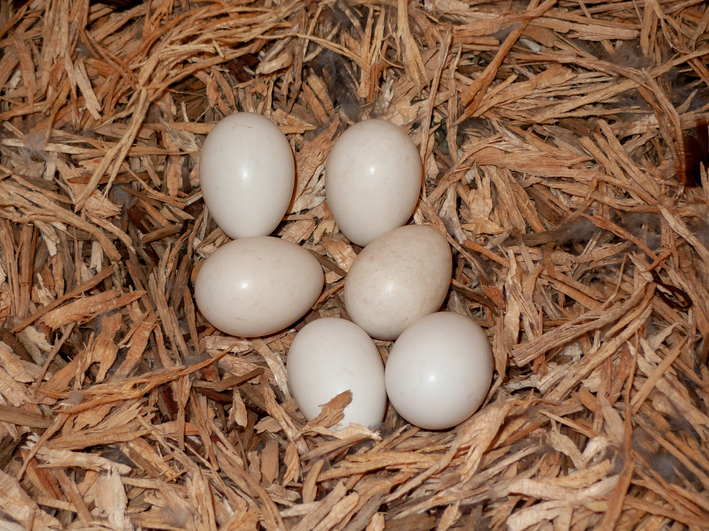 Six eggs laid by a North Island kaka (Nestor meridionalis septenrionalis; kākā) in a wooden nestbox at Zealandia EcoSanctuary.